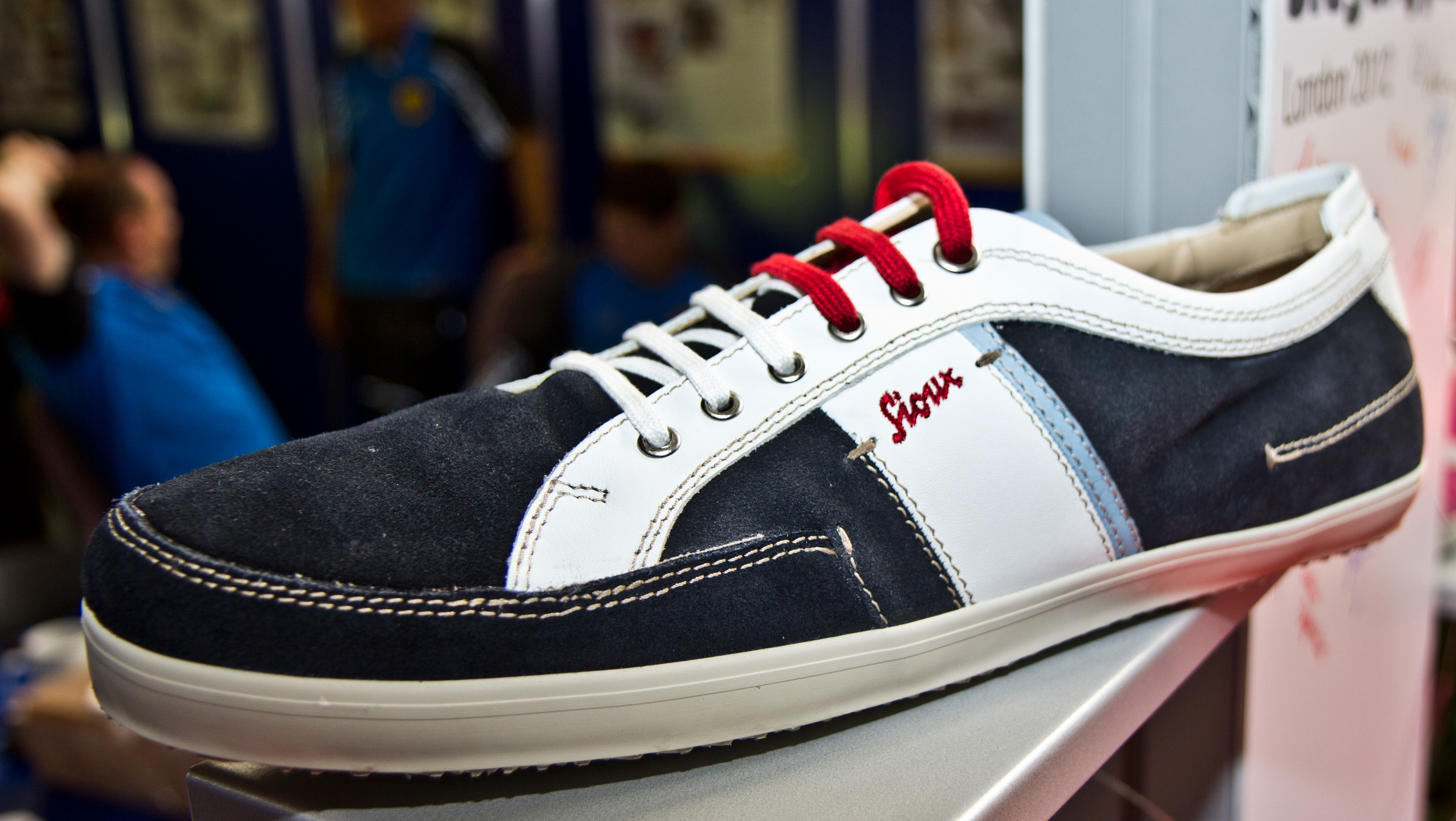 Outfitting the Olympic team of Germany 2012